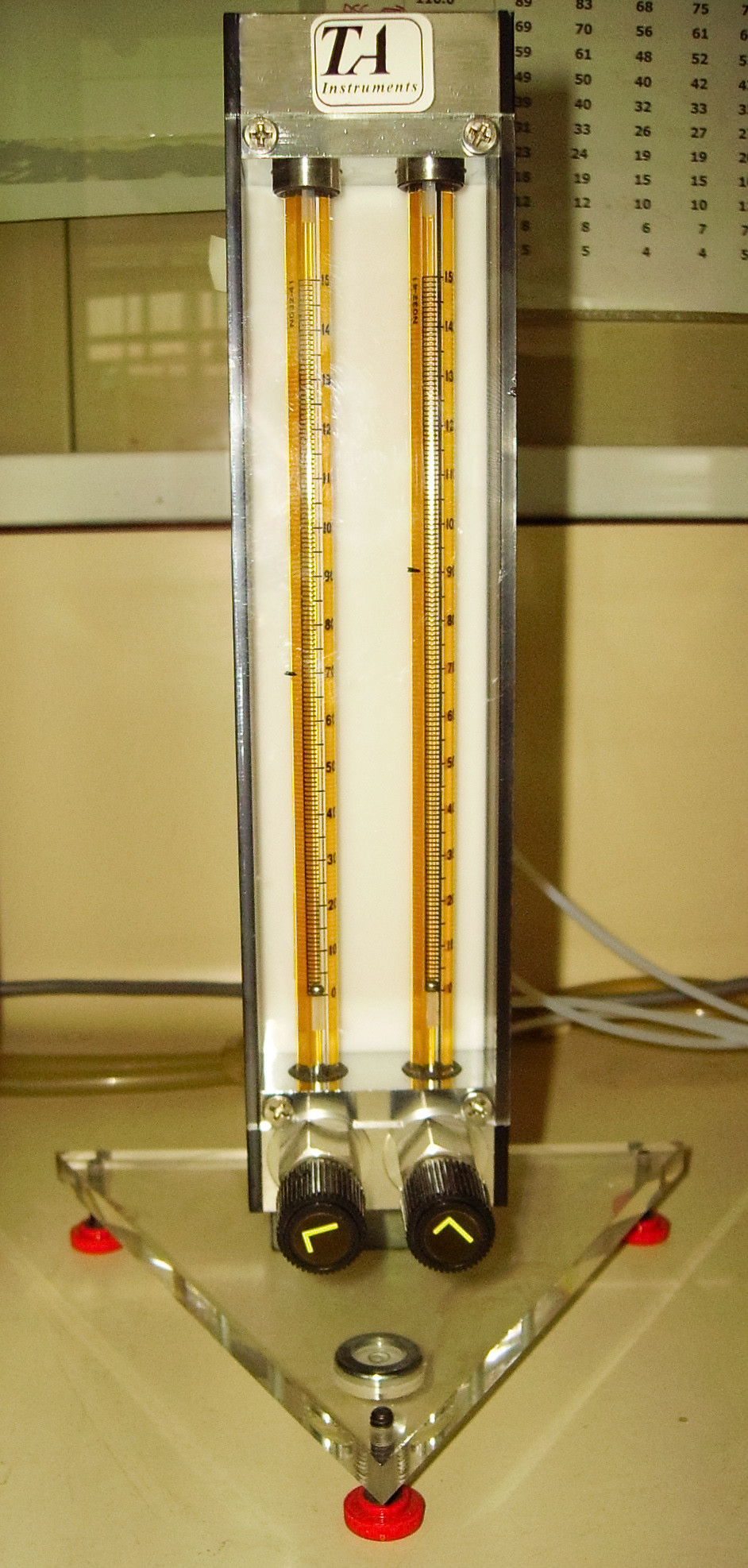 Laboratory gas flowmeter with float. Model with two floats, two tubes and two valves. Graduations from 0 to 150 mL/min. Examples of use: TGA, DSC devices. For this picture, the two floats are on « 0 ».